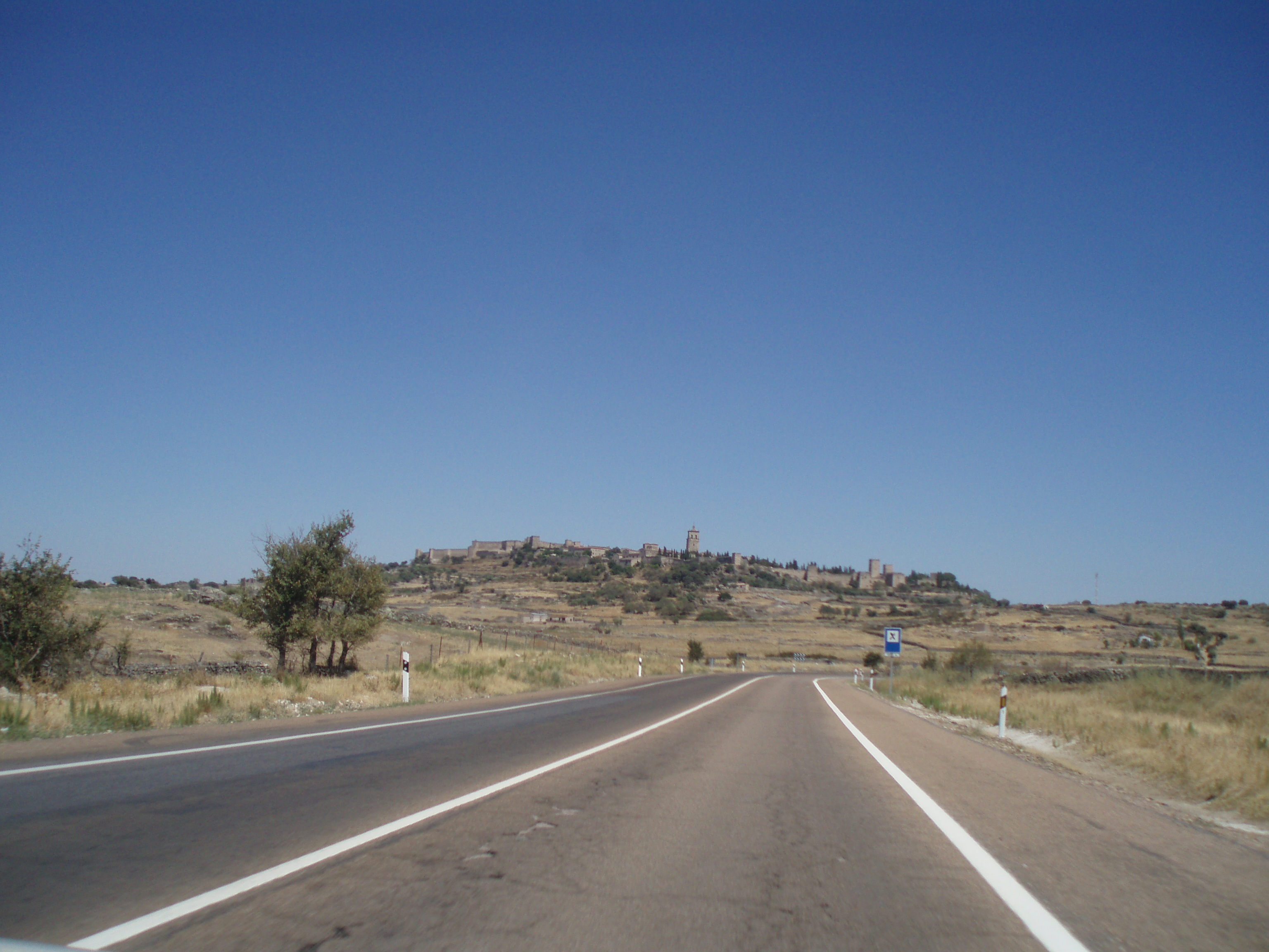 Trujillo, in the province of Caceres. (Spain)